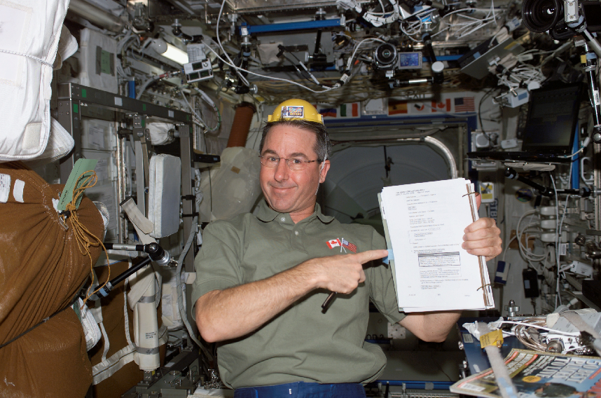 Flight Day 4 (July 30, 2005) NASA image from the STS-114 Space Shuttle mission with the April 2005 issue of Men's Journal[1] next to astronaut Stephen Robinson.